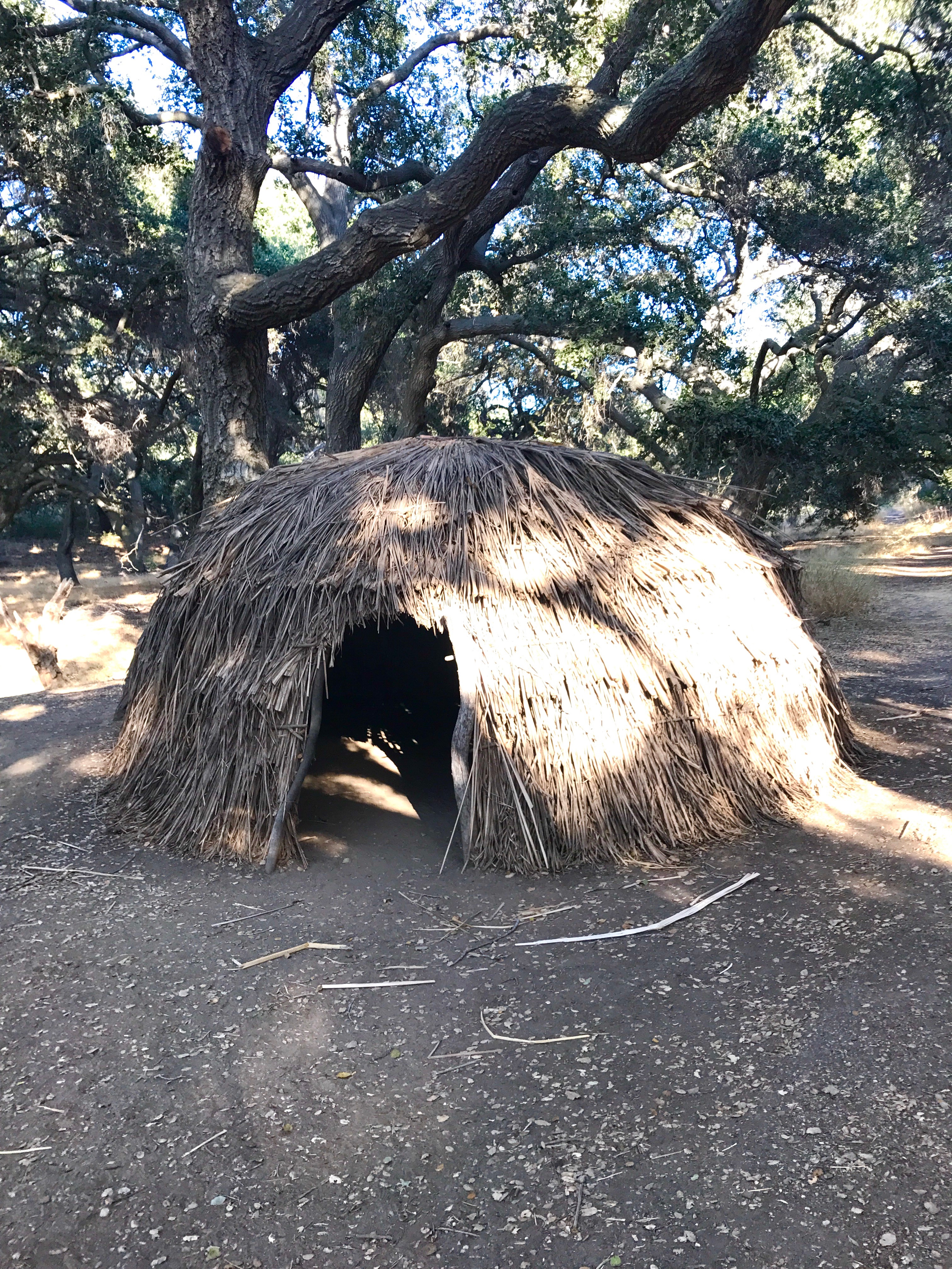 Replica of a Chumash 'ap in the reconstructed Chumash village at Chumash Indian Museum in Thousand Oaks, CA.